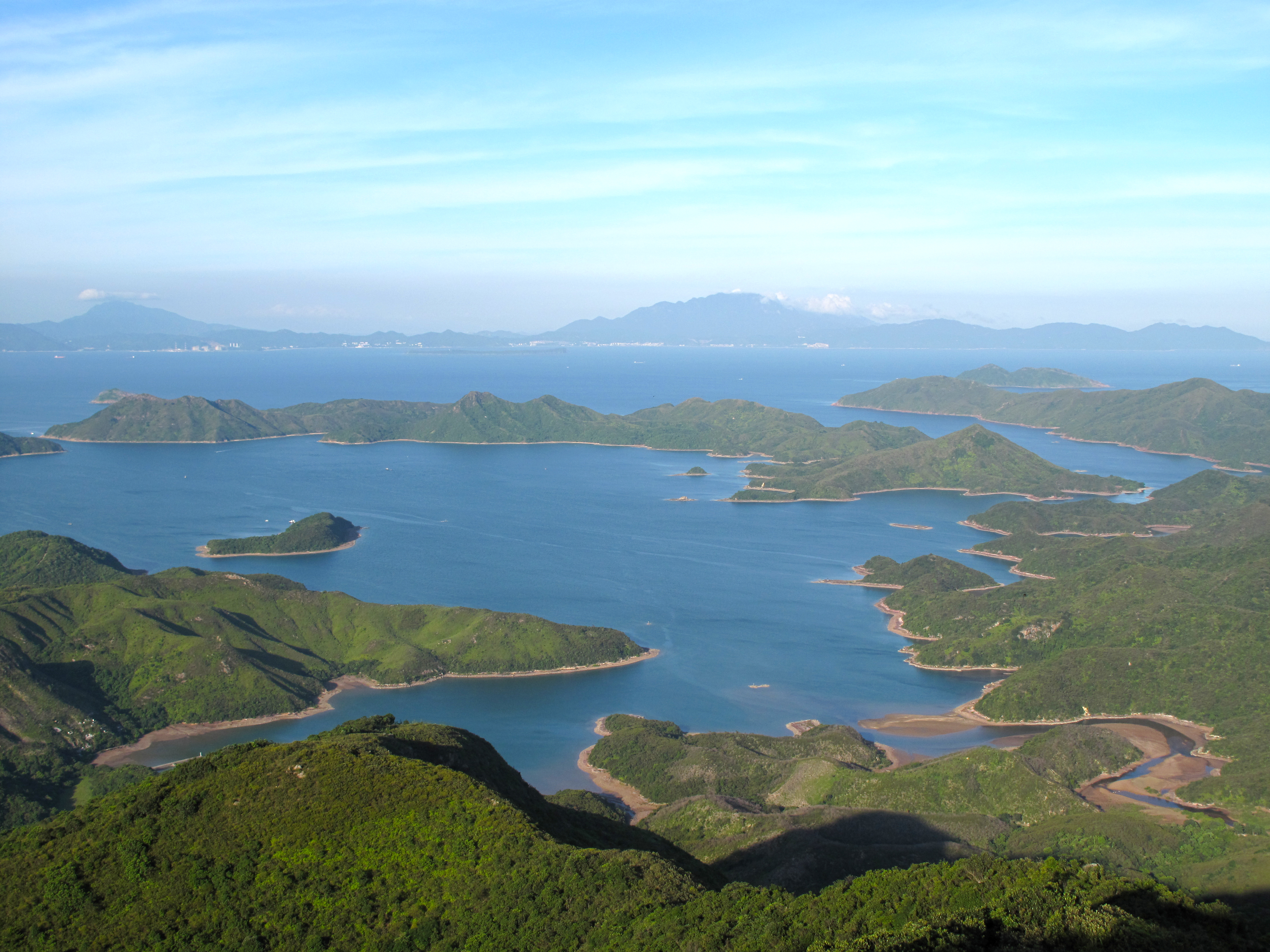 Photo of Double Haven